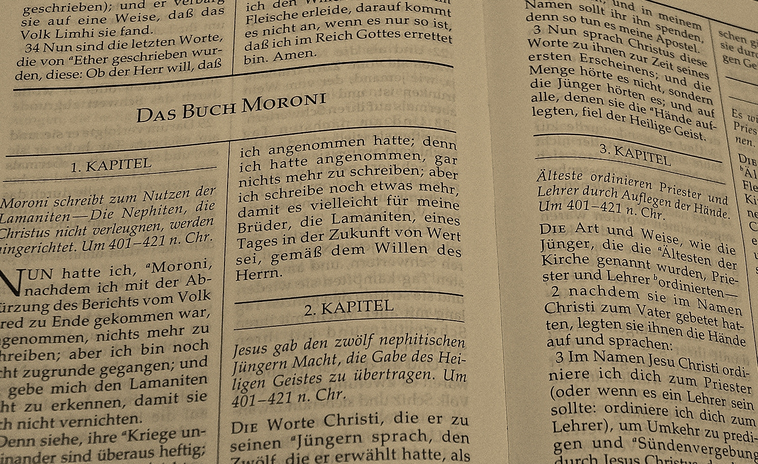 German language edition of the Book of Mormon, displaying portions of the first three chapters of the Book of Moroni.